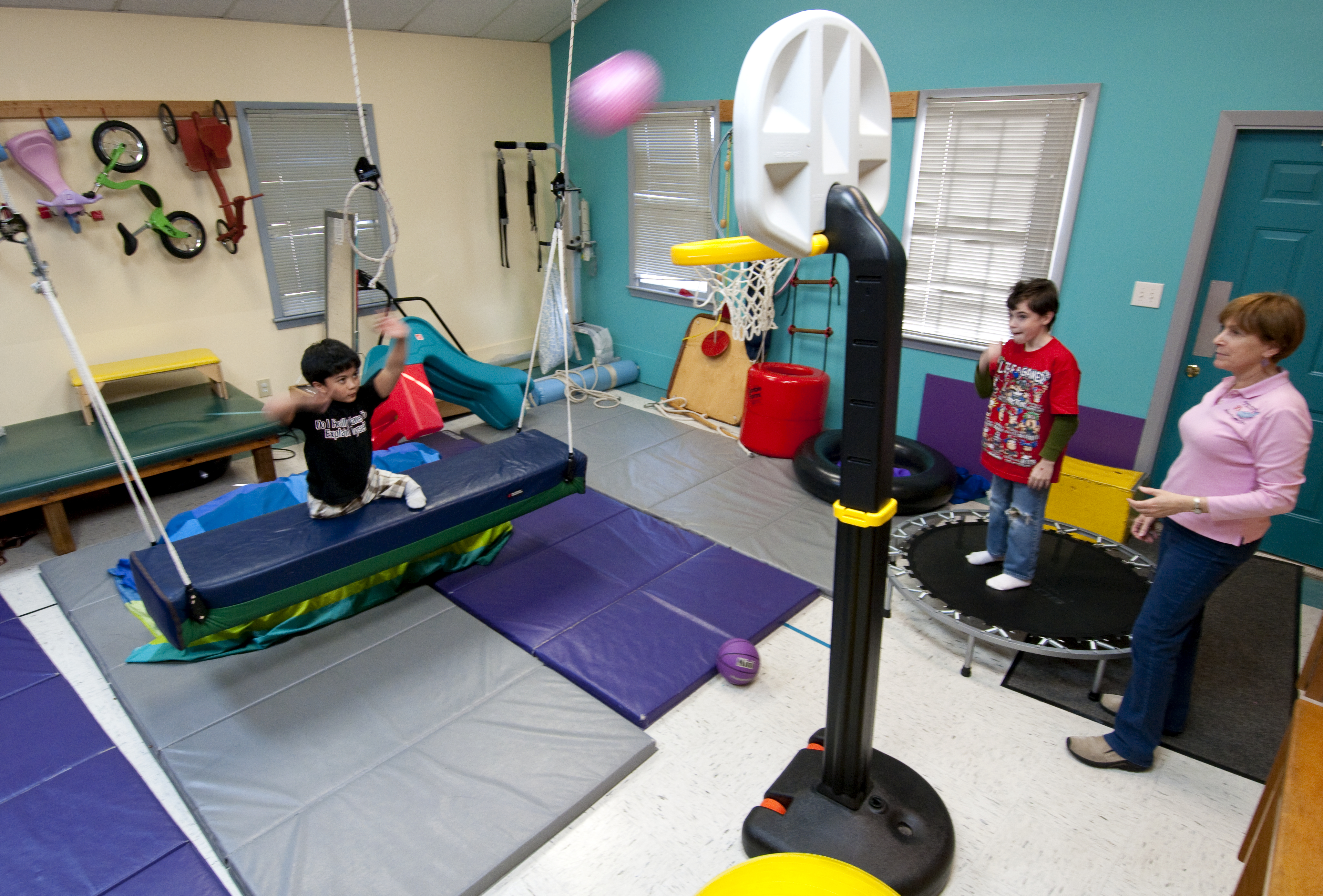 VIRGINIA BEACH, Va. (March 6, 2010) Ten-year-old Joseph Camano, left, exercises on a swing during a routine physical therapy session at the Diane Epplein & Assoc. Pediatric Therapy facility gymnasium while fellow patient nine-year-old Logan Flaathen, center, and occupational therapist Judy Anderson observe. Camano was born with no legs and a malformed right arm and he and his father, Lt. Cmdr. Santiago Camano, are enrolled in the Exceptional Family Member Program (EFMP), a service-wide initiative designed to interface closely with the detailing process to ensure family members receive the care they require and service members can fulfill their career requirements and goals. (U.S. Navy photo by Mass Communication Specialist 1st Class Brien Aho/Released)